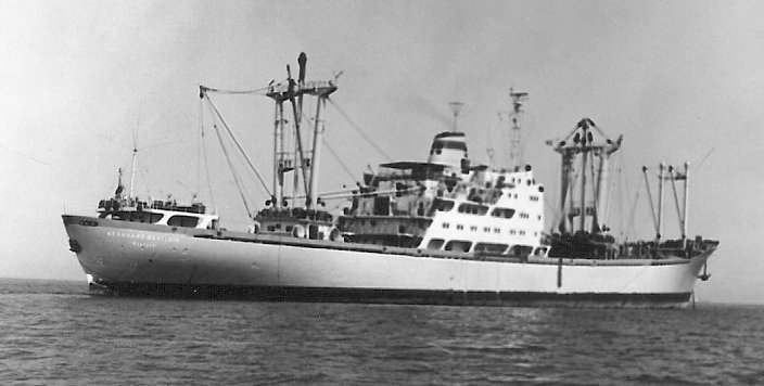 The east german motor vessel Bernhard Bästlein in Arabian Gulf 1976